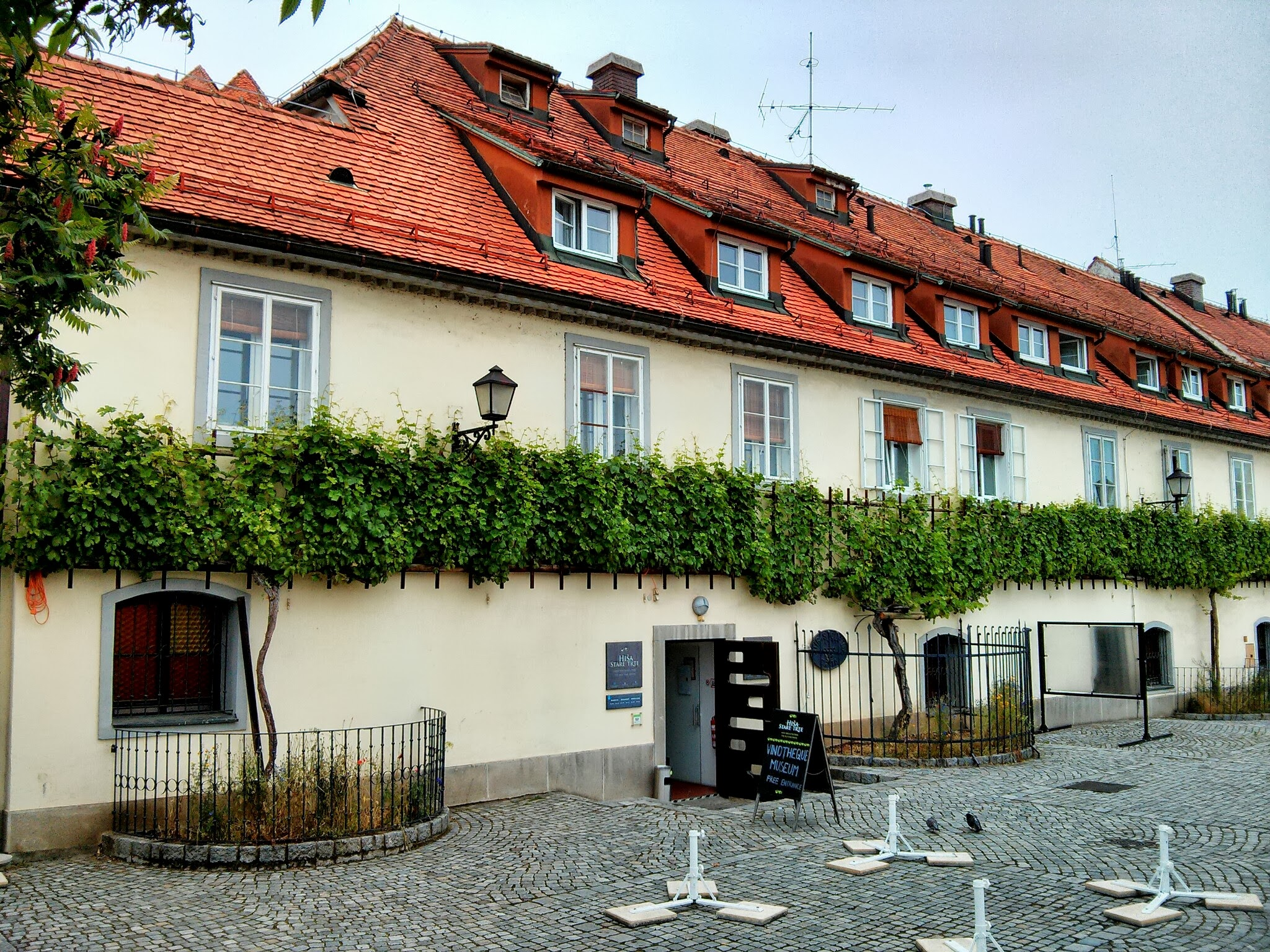 The oldest Vine in the World